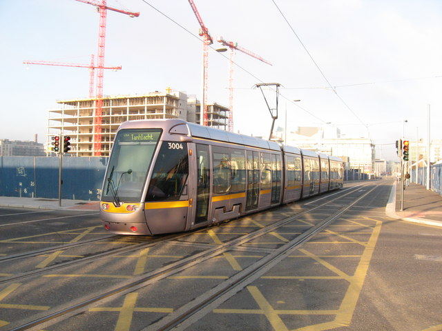 Luas tram, Dublin, on the extension to the Point.